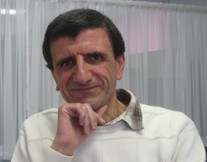 I own this picture.